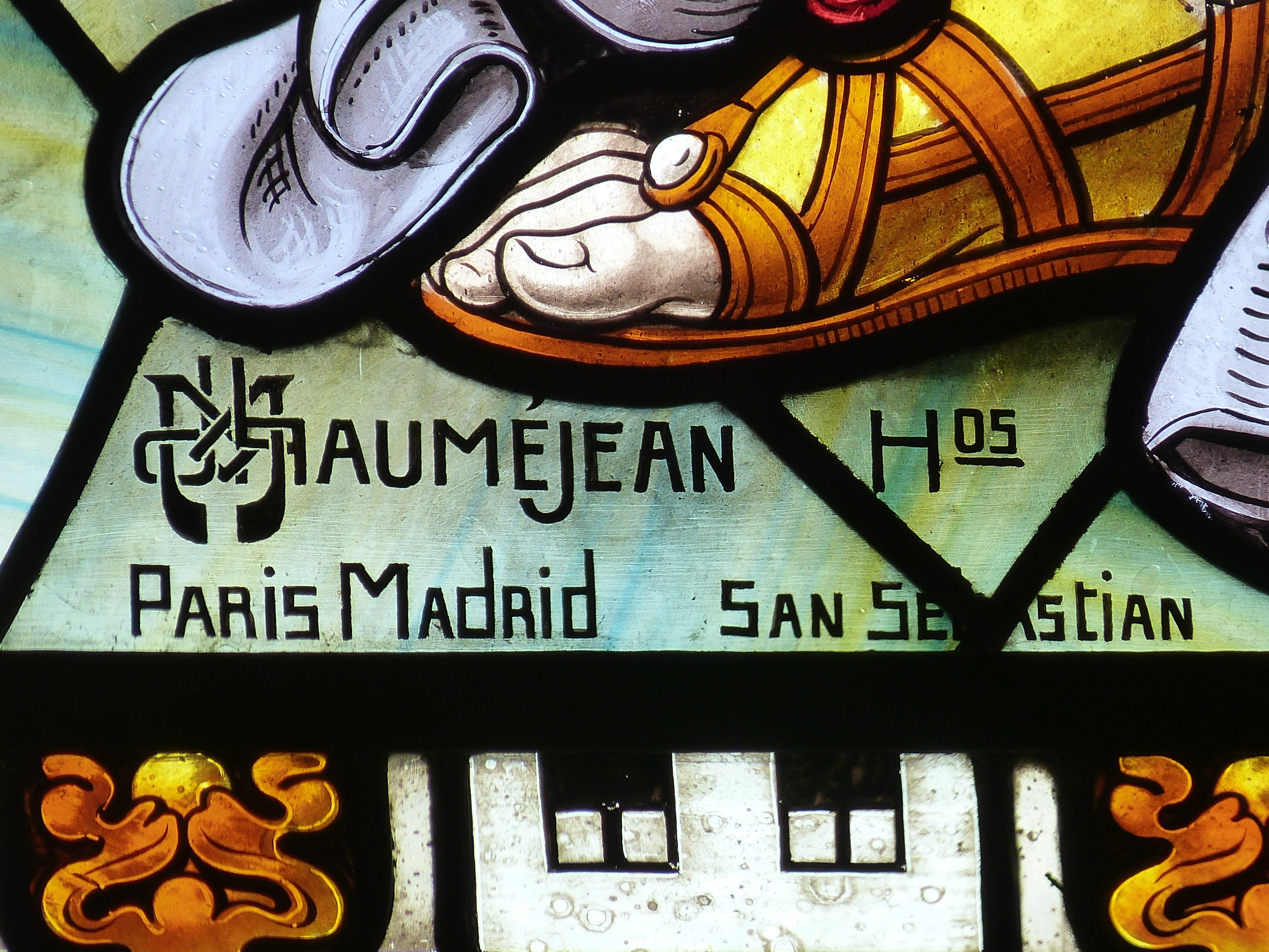 Arucas ( Gran Canaria ). San Juan Bautista church ( 1917 ): Stained glass windows showing the beheading of Saint John the Baptist - Signature of the producer Maumejean Hermanos.